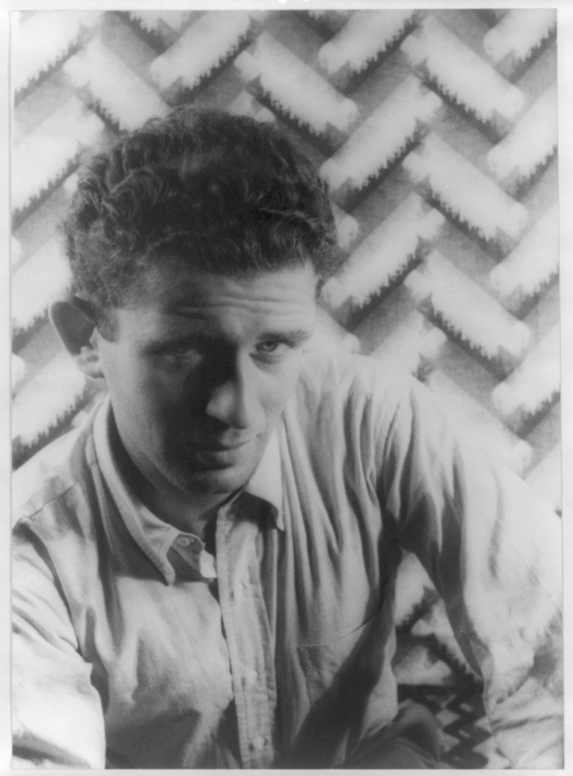 Norman Mailer, 1948